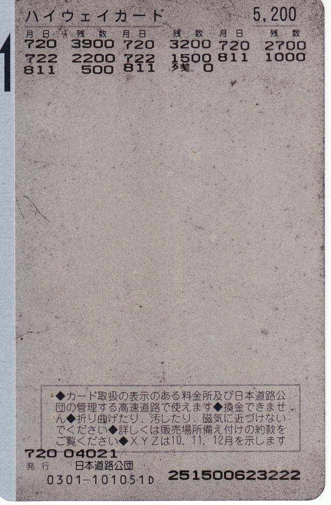 The other side of prepaid card "Highway card" 5200 yen ticket (used) for expressway that had been issued in Japan before. The use day and the balance have been printed. The table side is Highwaycard5200-omote1.jpg.